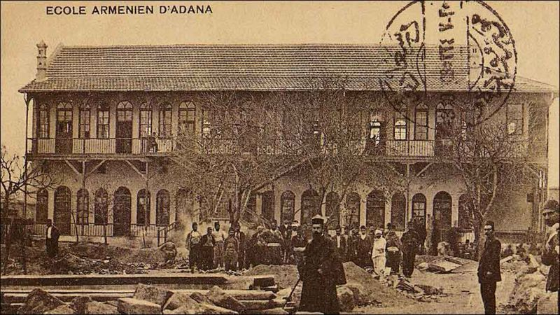 Aramyan Armenian School in Adana